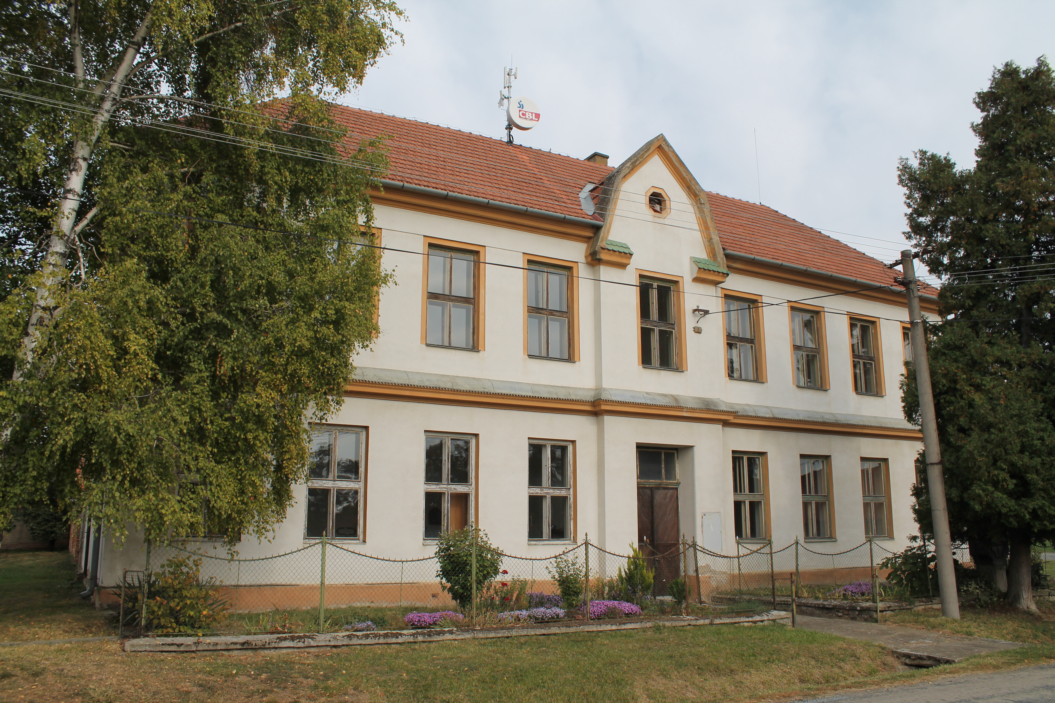 Former elementary school, Džbánice, Znojmo District, Czech Republic This photograph was taken during a group photography field trip by Brno Wikipedians: 2016-09-28.